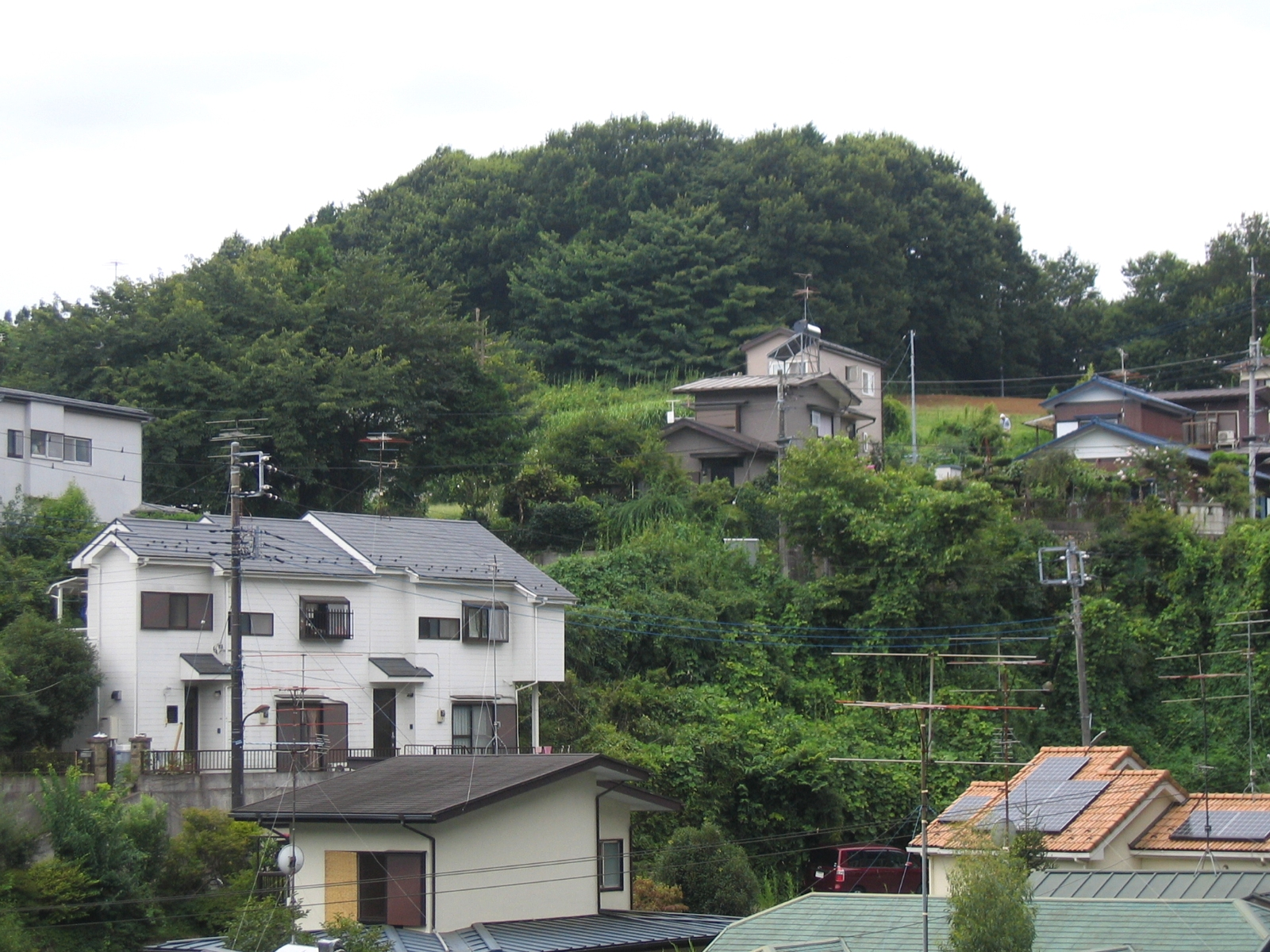 Nanakuniyama, Machida, Tokyo, Japan